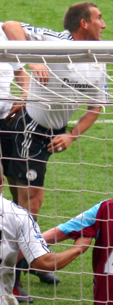 Alan Stubbs. Image cropped from original at flickr.